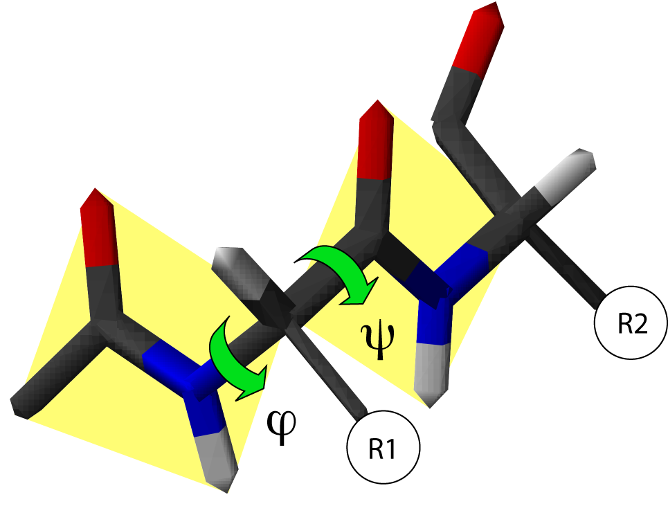 protein backbone dihedral angles phi and psi